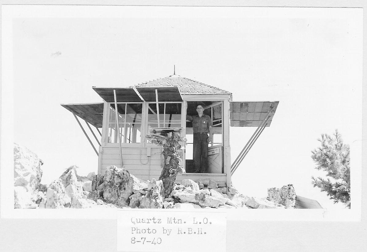 Quartz Mountain Lookout 1940 in the Umpqua National Forest